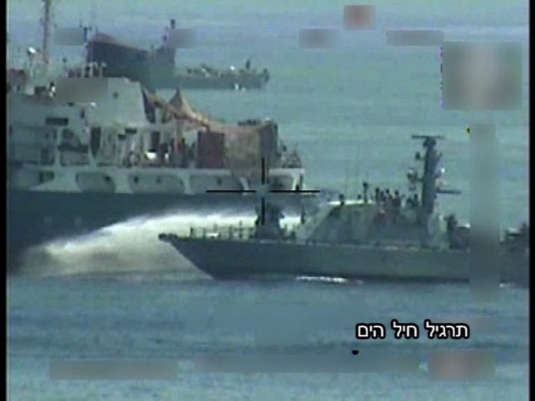 Yesterday, the Israeli Navy conducted an integrated exercise simulating all possible scenarios in the event that a flotilla attempts to breach the naval blockade surrounding the Gaza Strip. The naval blockade, along with active efforts by the Israeli Navy, has stemmed the flow of hundreds of tons of advanced missiles and other weaponry to Hamas and other terror organizations from Gaza who seek to harm Israeli civilians. The simulation is in response to the intentions of the organizers of last year’s flotilla to launch a new flotilla this summer. Last year’s flotilla consisted of violent activists with ties to worldwide radical Islamic terrorist activity who pre-planned the attack on the Israeli Navy commandos who boarded the ship. The organizers of this year’s flotilla are similar to those of last year, including organizations such as the IHH who have close ties to Hamas and other terrorist cells worldwide. Yesterday’s simulation practiced non-lethal tactics to board the flotilla ships, such as the use of water cannons, as shown in this photo of the drill